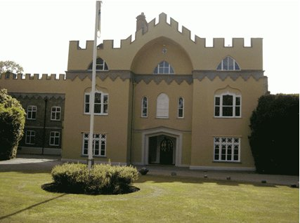 Hampden House main entrance as it appears in 2011